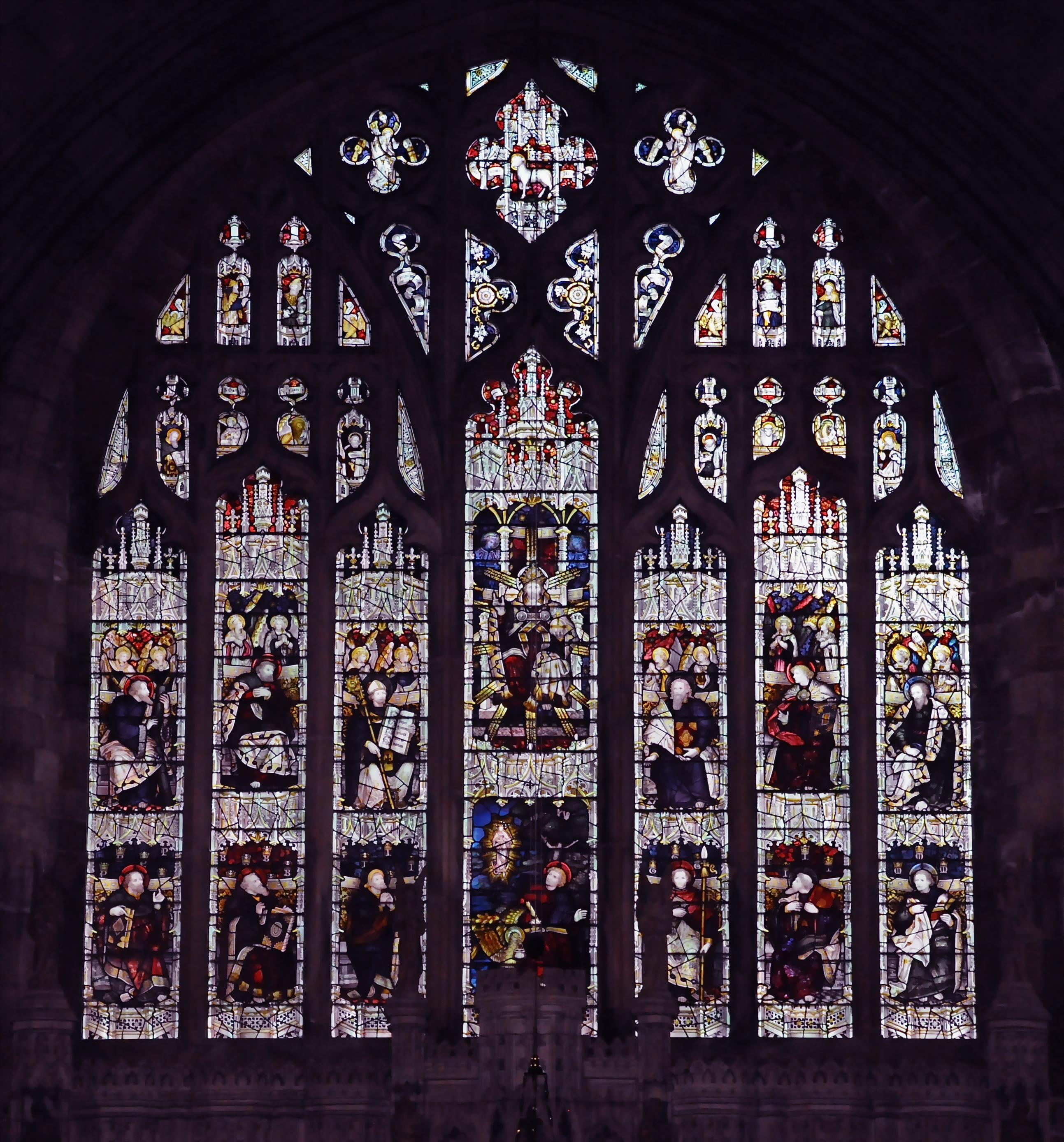 East window of St John's Church Barmouth by CE Kemp